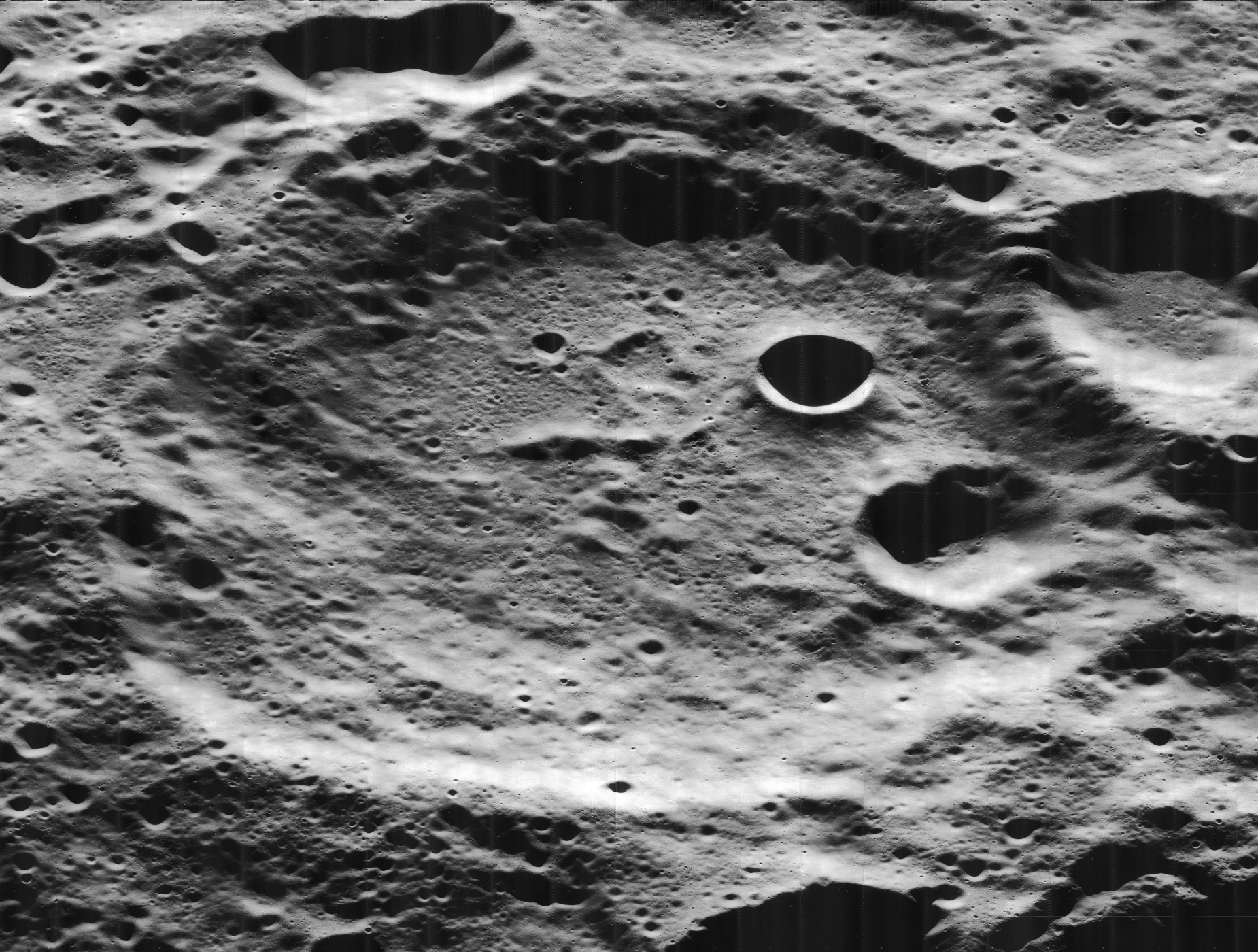 Oblique view of Kurchatov crater, on the far side of the moon, facing west.